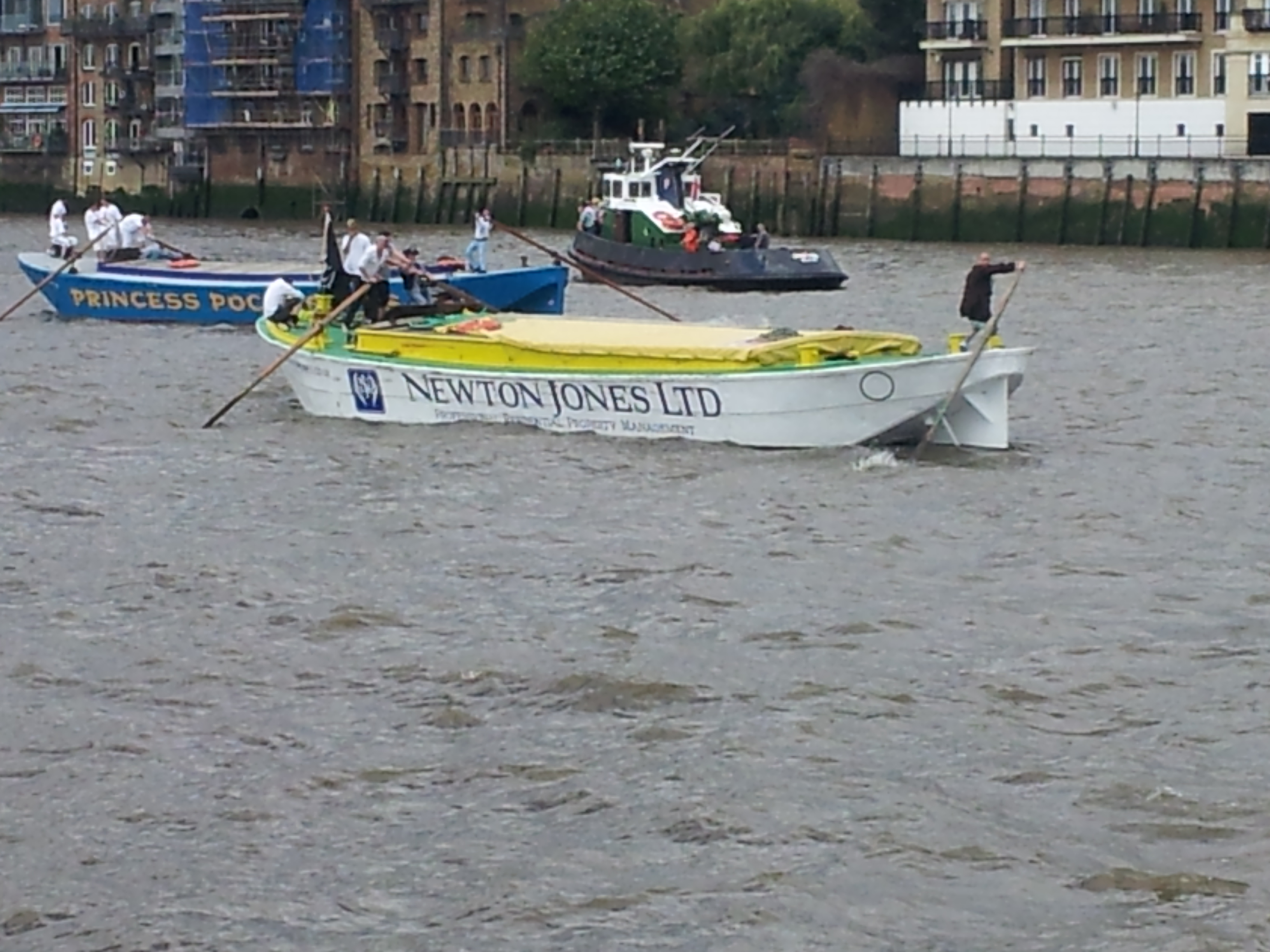 London Barge race - River Thames 22nd July 2012